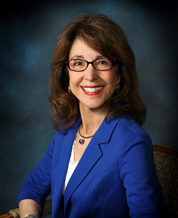 Ellen J. Kennedy, Ph.D.